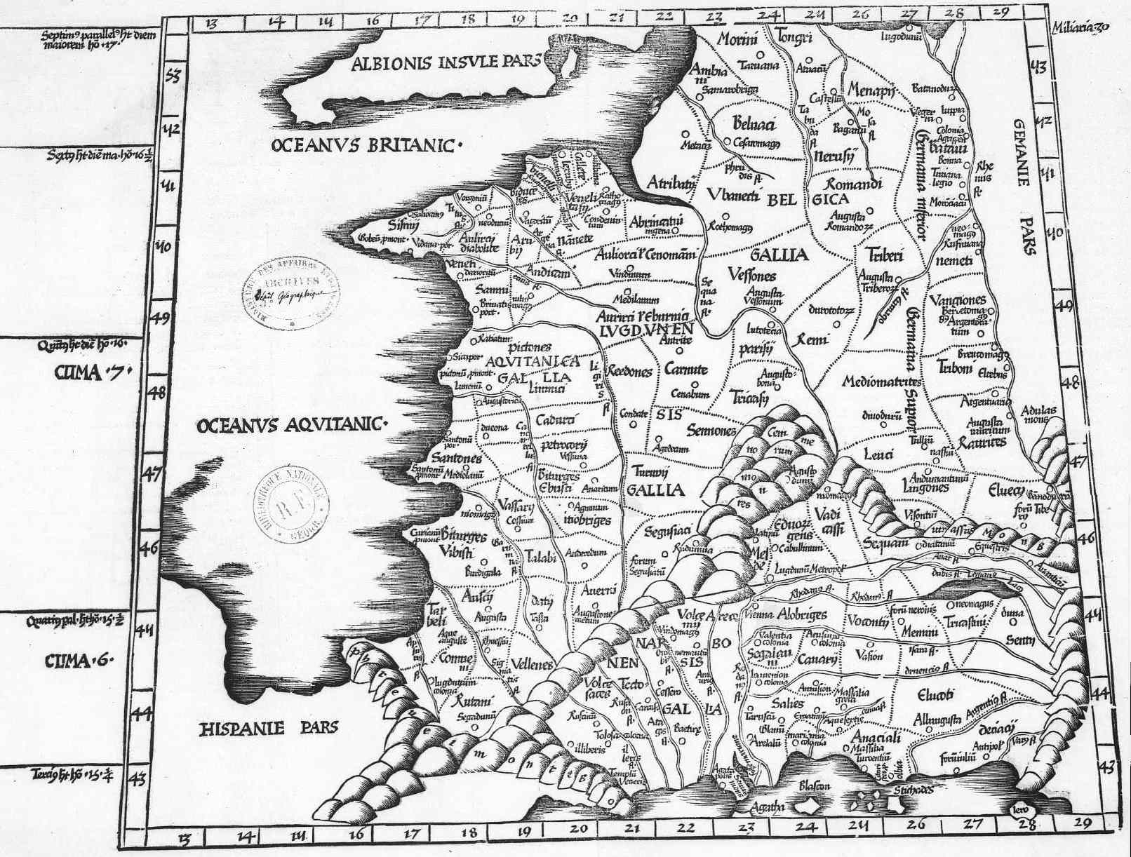 The 3rd European Map (Tertia Europae Tabula) of Laurent Fries from a 1541 reprint of his 1522 maps for Ptolemy's Geography.